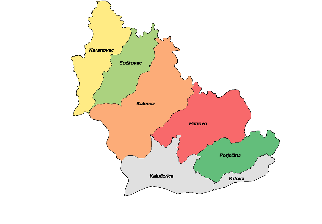 Petrovo